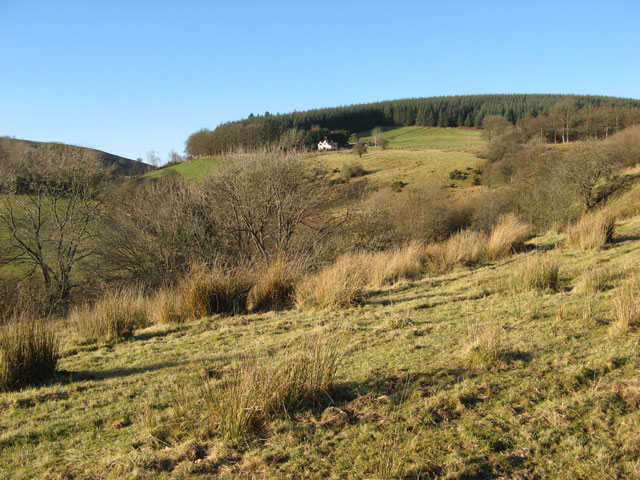 The Foel Looking up the rough hillside to the cottage on the edge of the forest. An interesting contrast in this winter view with dead grasses and no leaves.